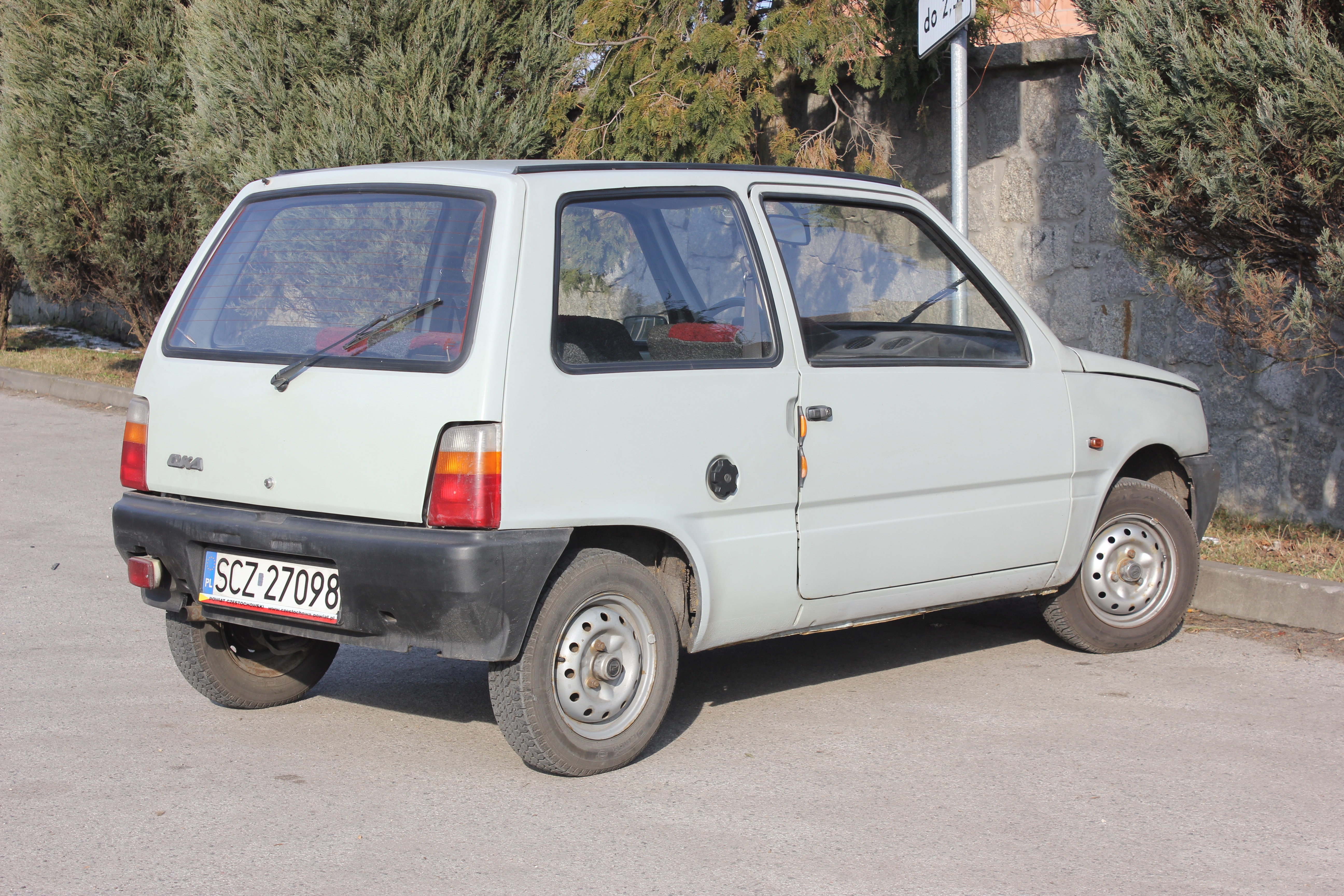 Gidle - Vaz Oka